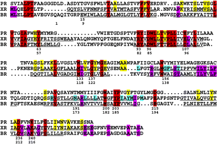 comparació de les seqüències d'aminoàcids de la xantorrodopsina,bacteriorodopsina i proteorodopsina.